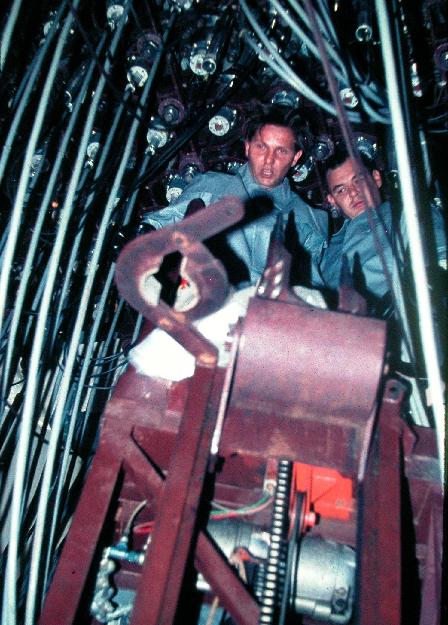 Nuclear power plant Gundremmingen.